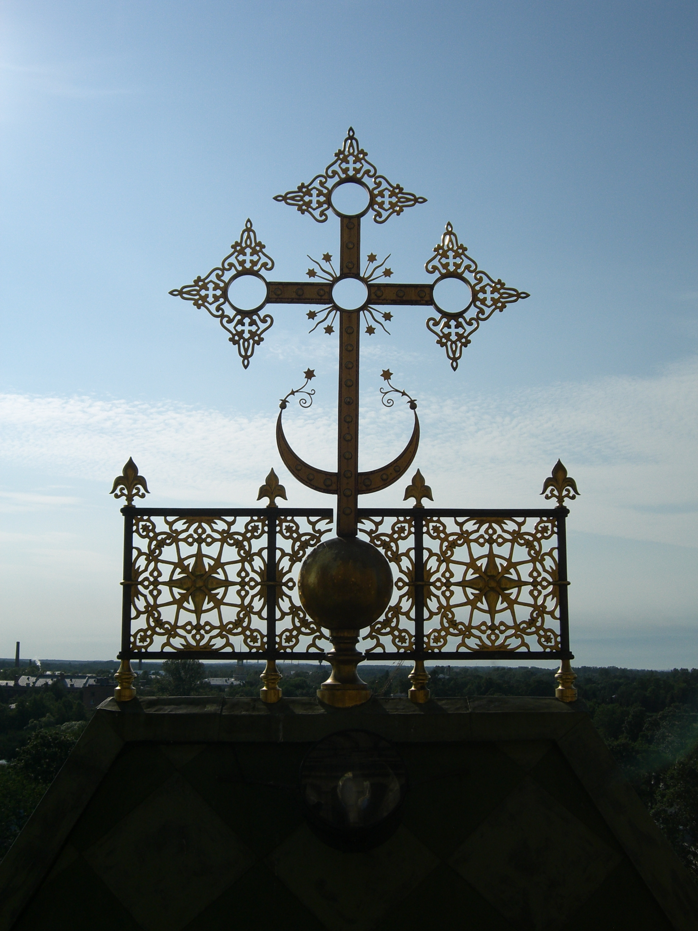 Cross over Crescent variation of the Orthodox Cross at the Cathedral of Peter and Pavel, Peterhof, (Russia).